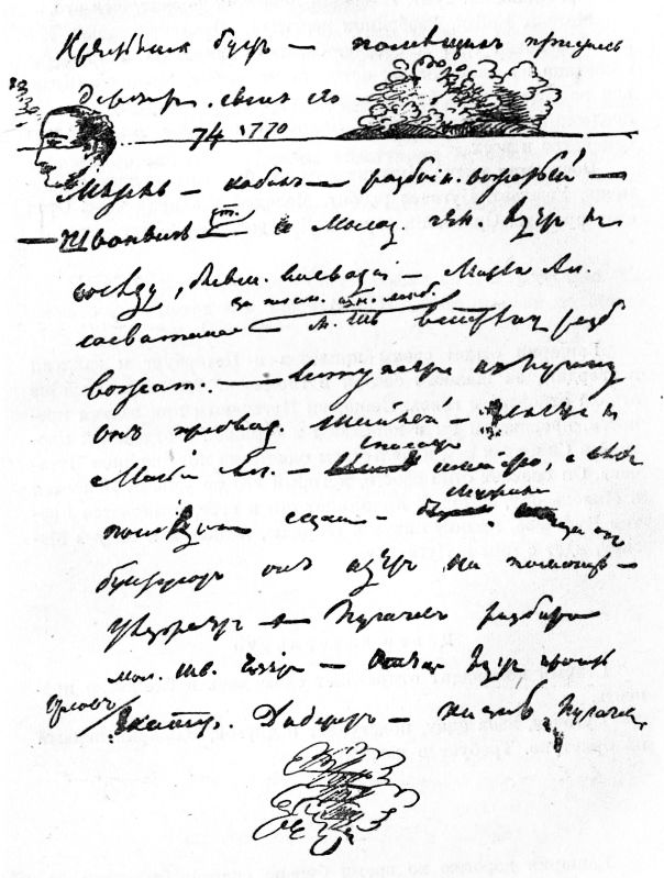 Manuscript of The Captain's Daughter